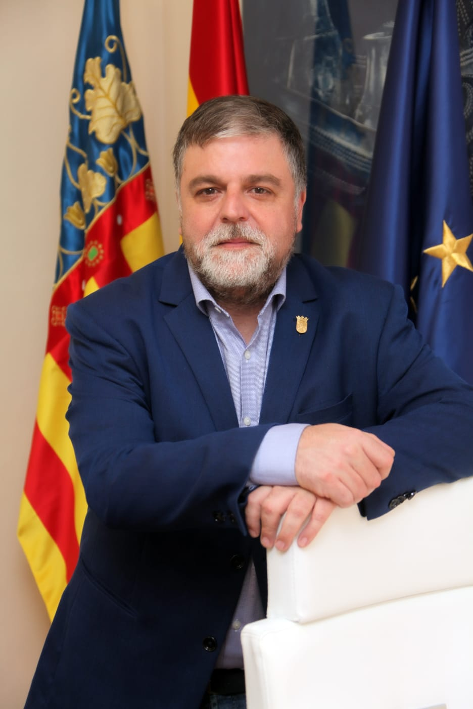 Major of Villena city